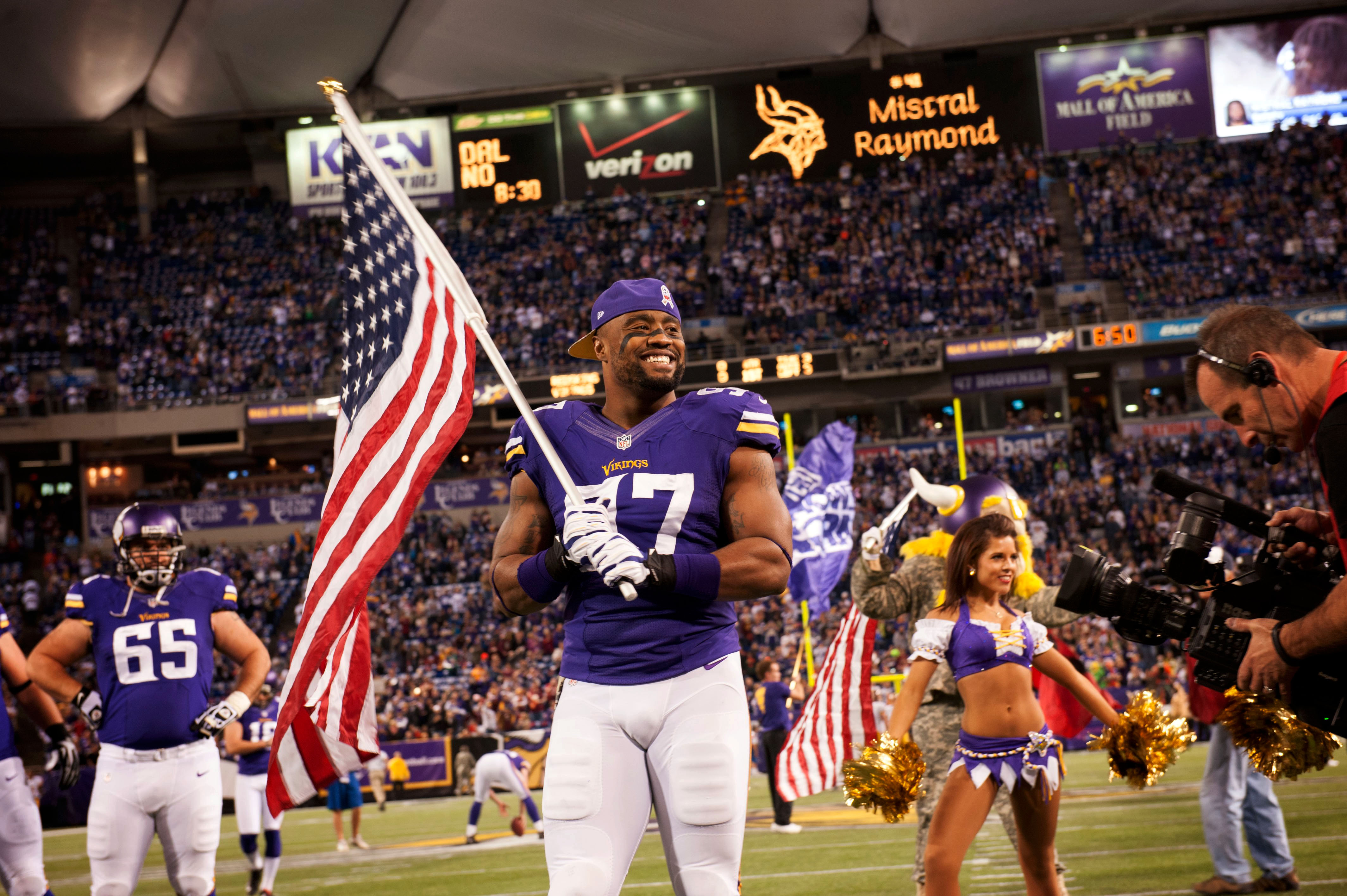 Minnesota Vikings DE Everson Griffen during the 2013 Vikings Military Appreciation Day